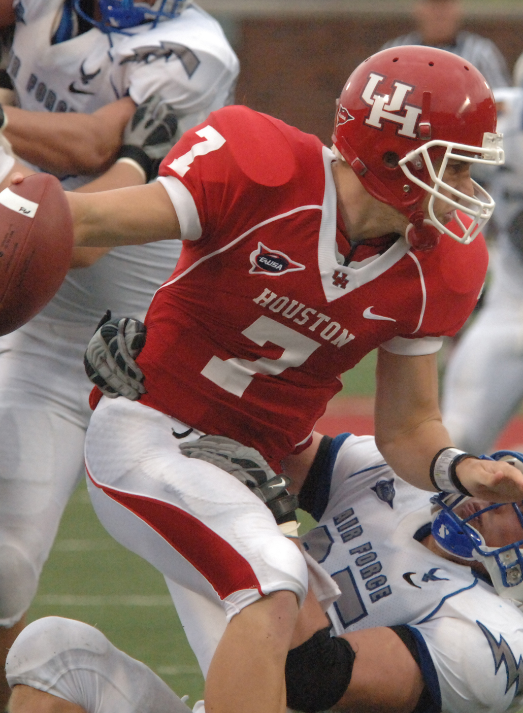 Quarterback Case Keenum, as part of the 2008 Houston Cougars football team faces off against the Air Force Falcons at Gerald J. Ford Stadium on the campus of Southern Methodist University. The game was originally intended to be a home game for the Cougars at Robertson Stadium, and was scheduled to be televised by CBS College Sports. Due to Hurricane Ike, the game was moved to Dallas, and the television appearance was cancelled.